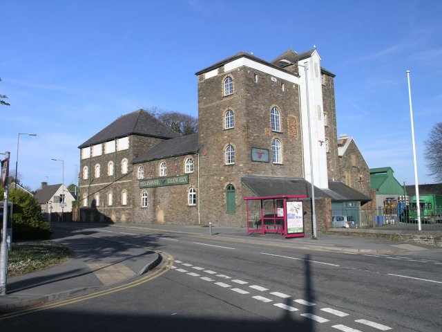 Felinfoel Brewery One of two breweries traditionally associated with Llanelli, this is the only one remaining after the Brains brewery closed.